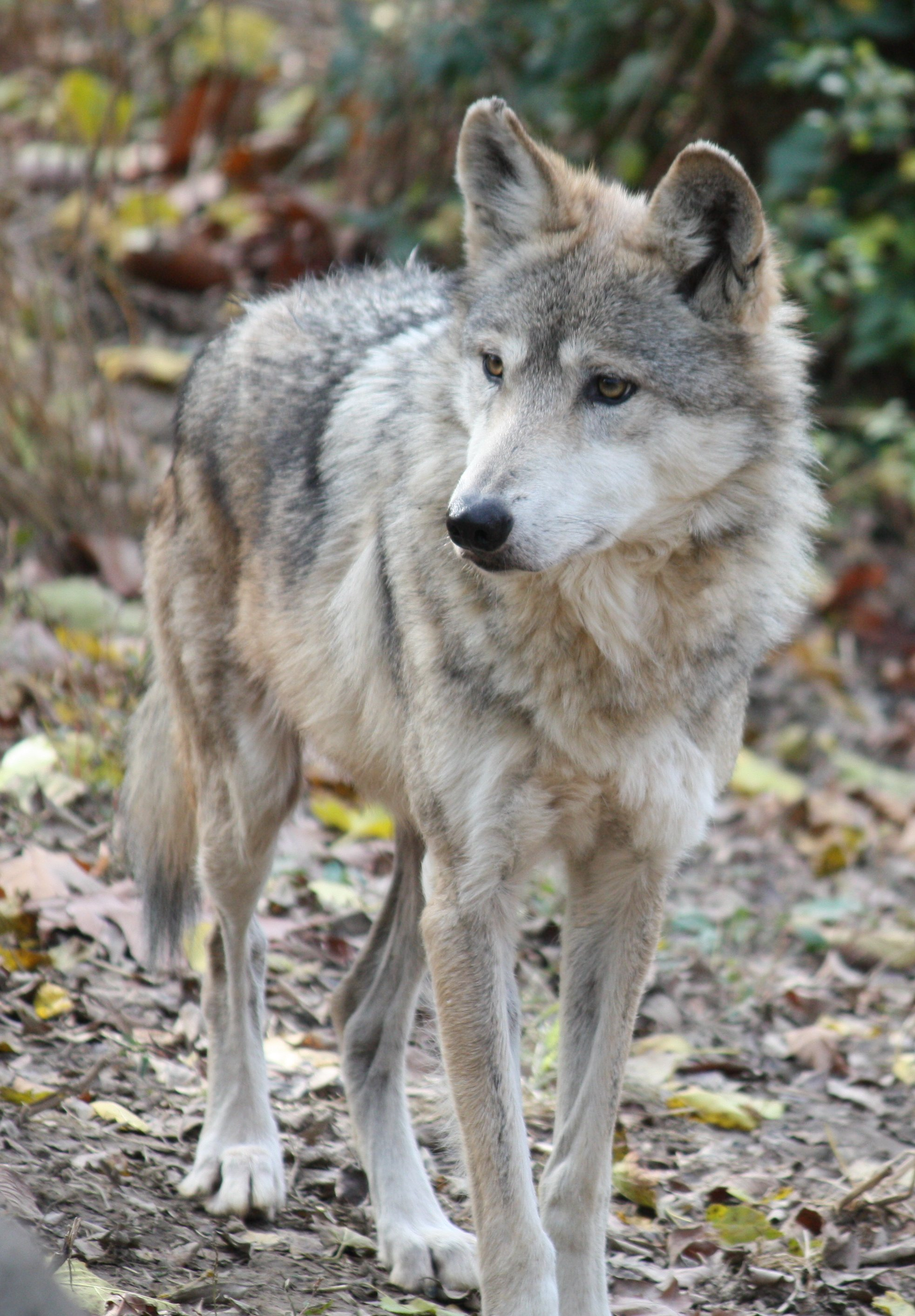 Mexican Wolf Canis lupus baileyi at Cincinnati Zoo